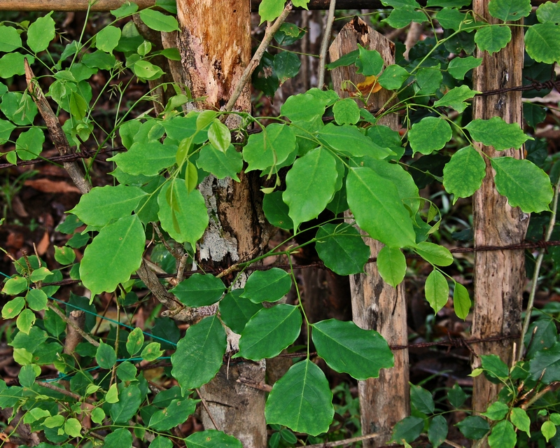 Pterocarpus indicus, for live fencing. From Simeulue, Indonesia.